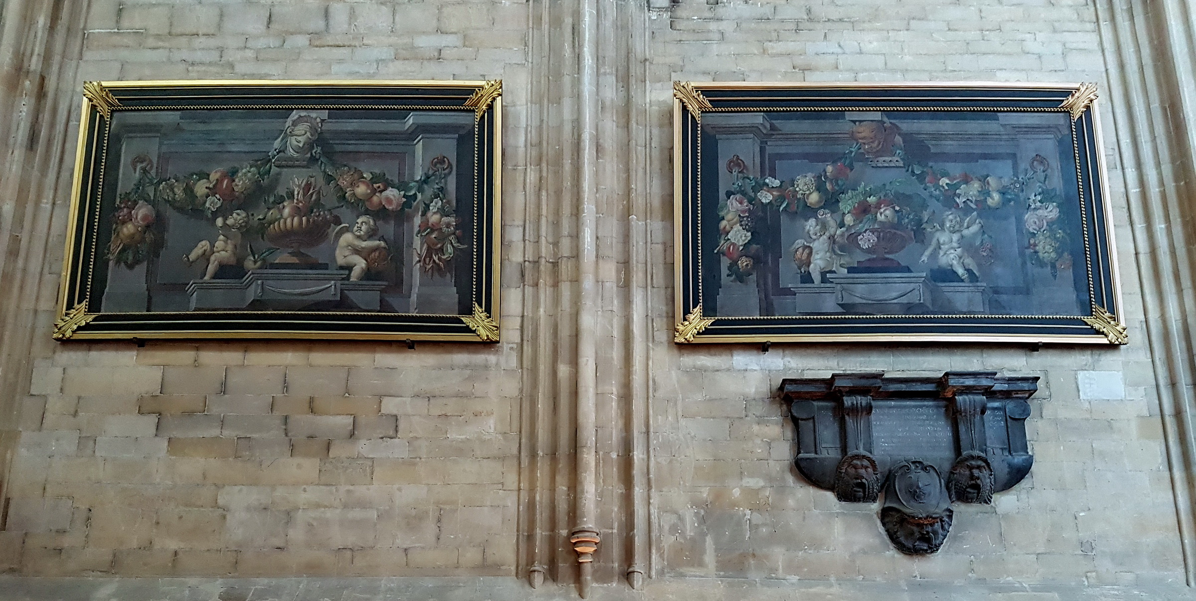 Still life paintings by Louis and François Hermans in the choir of the former Minorite Church (Oude Minderbroederskerk) in Maastricht, the Netherlands. The paintings are part of a series of 8 that were commisioned by the parish of Saint Nicholas. They were completed by the Maastricht brothers between 1786 and 1792 and hung in the clerestory of the former parish church. After the church was demolished in 1838, the paintings were bought by the city and ended up here in the 1880s.